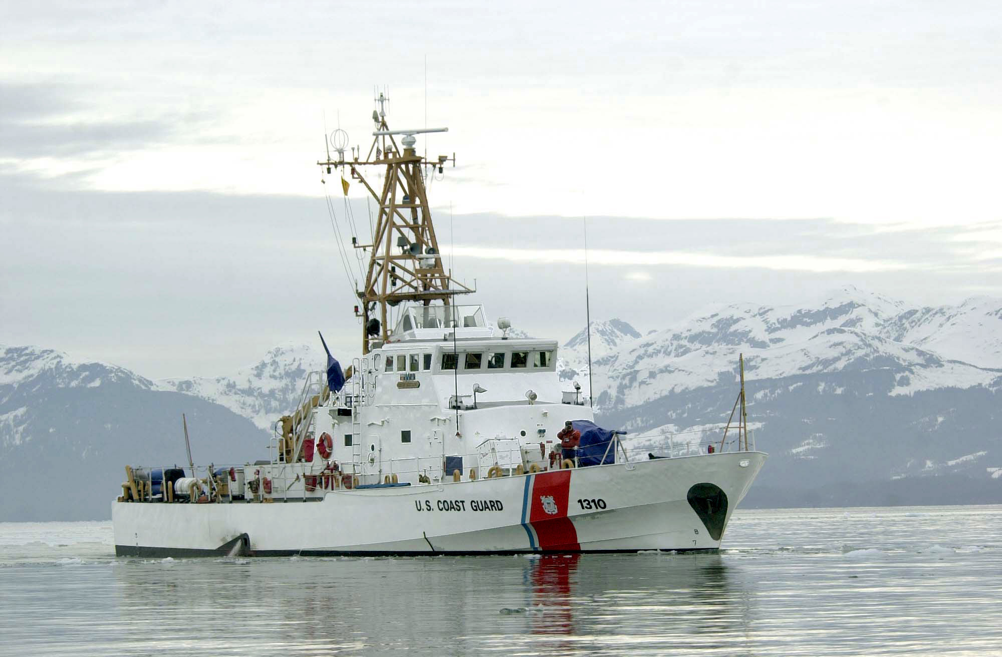 A starboard bow view of the US Coast Guard (USCG) ISLAND CLASS, Patrol Craft, USS MUSTANG (WPB 1310), underway at Port Valdez, Alaska, while providing harbor security during Exercise NORTHERN EDGE 2002. Location: PORT VALDEZ, ALASKA (AK) UNITED STATES OF AMERICA (USA)